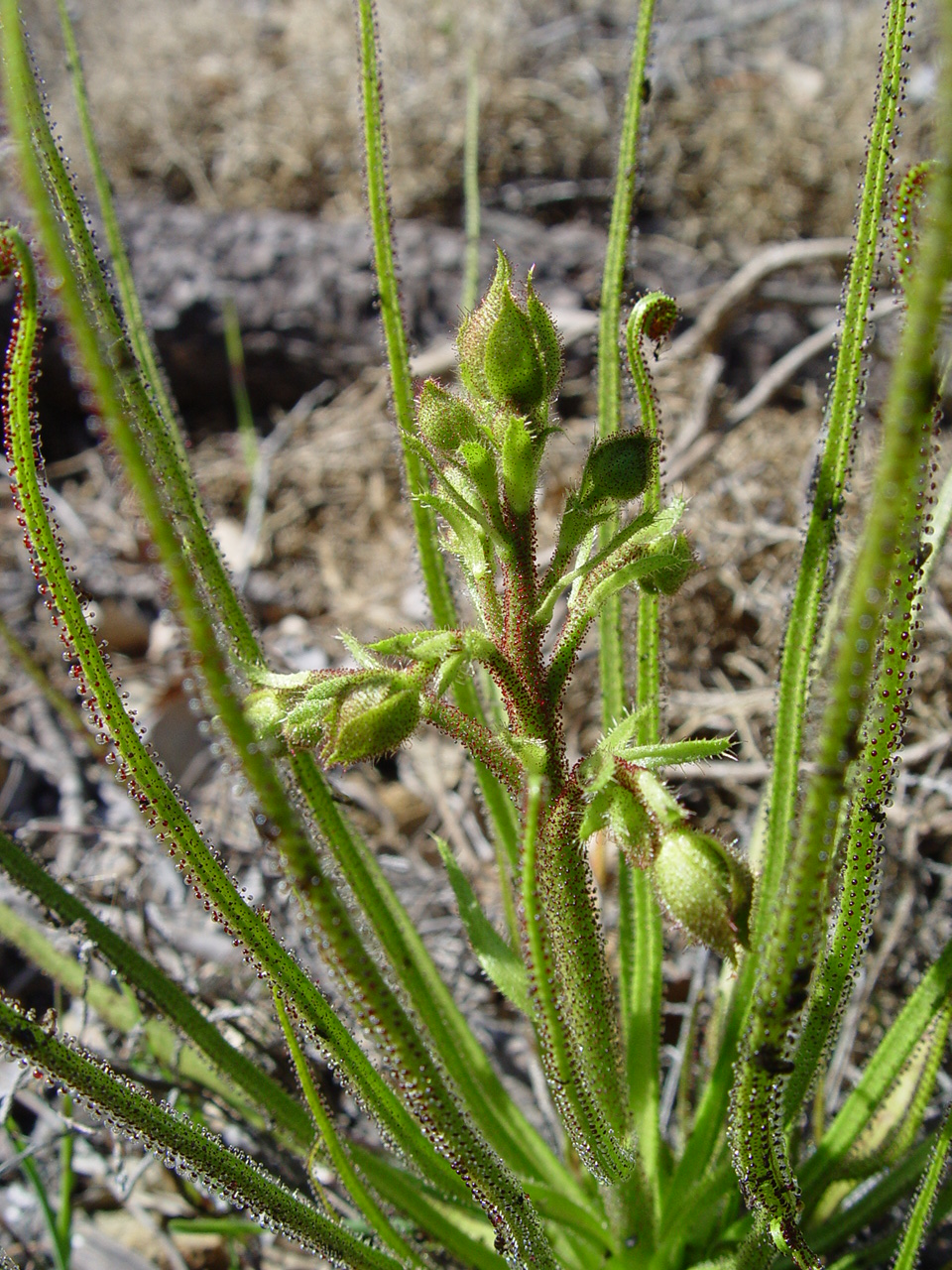 Name Drosophyllum lusitanicum Familiy Drosophyllaceae